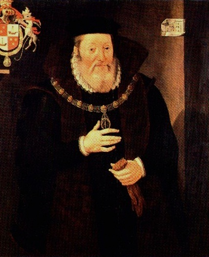 James Hamilton, Duke of Châtellerault (c1516-1575)